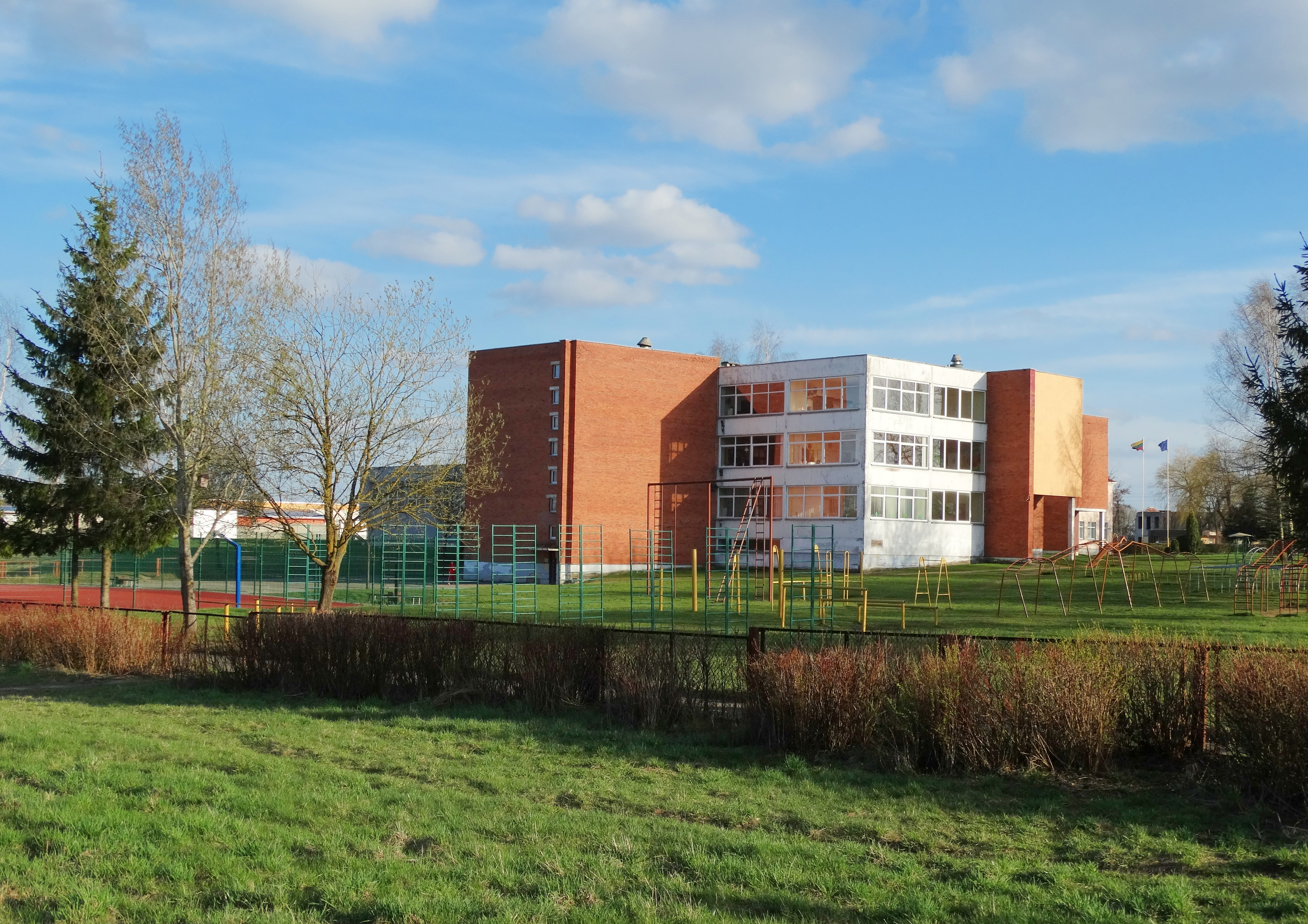 St. Raphael Kalinowski Gymnasium, Nemėžis, Vilnius district, Lithuania